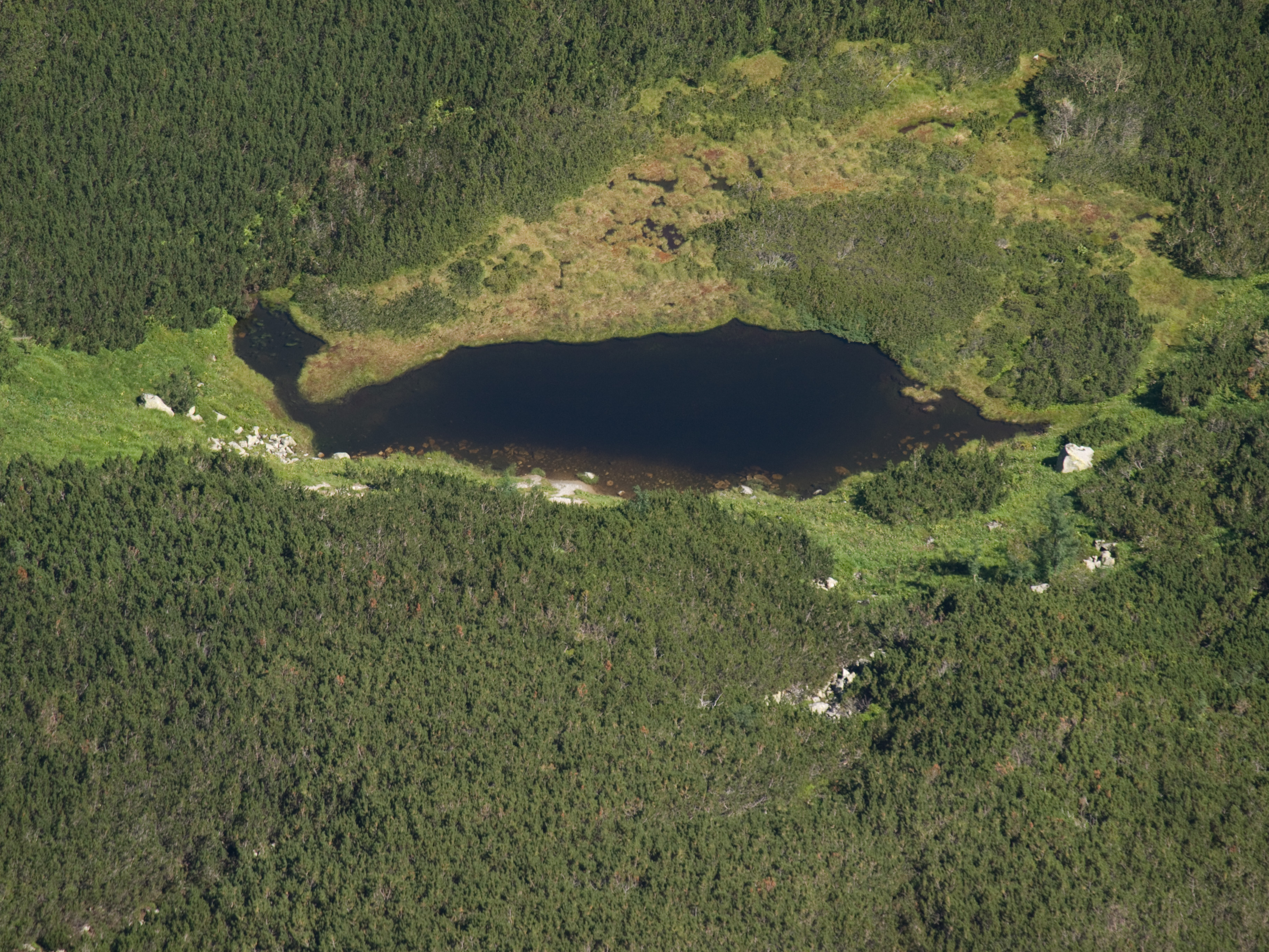 Malé Čierne pleso in Dolina Bielej vody